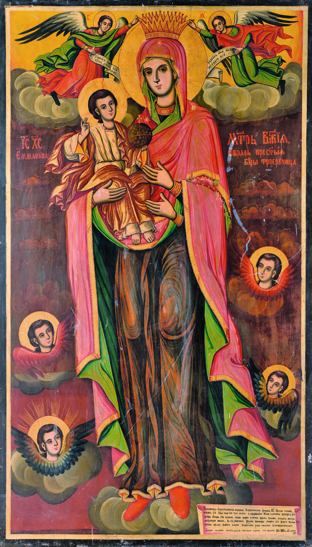 Mother of God of the Three Hands icon by Avram Dichov in Dunavtsi, 1886